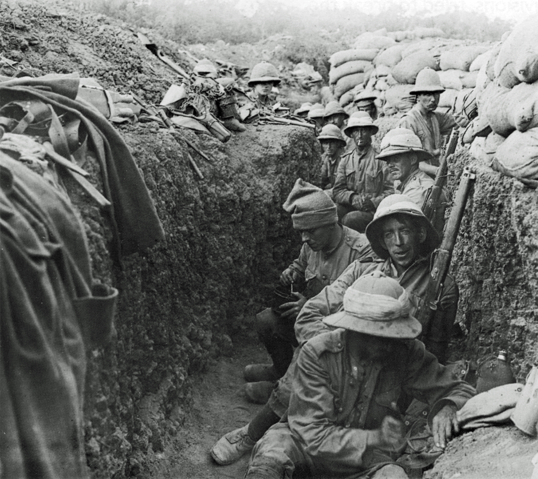 Soldiers in the trenches on the southern section of Gallipoli Peninsula during World War I. The men belong to the Royal Irish Fusiliers.